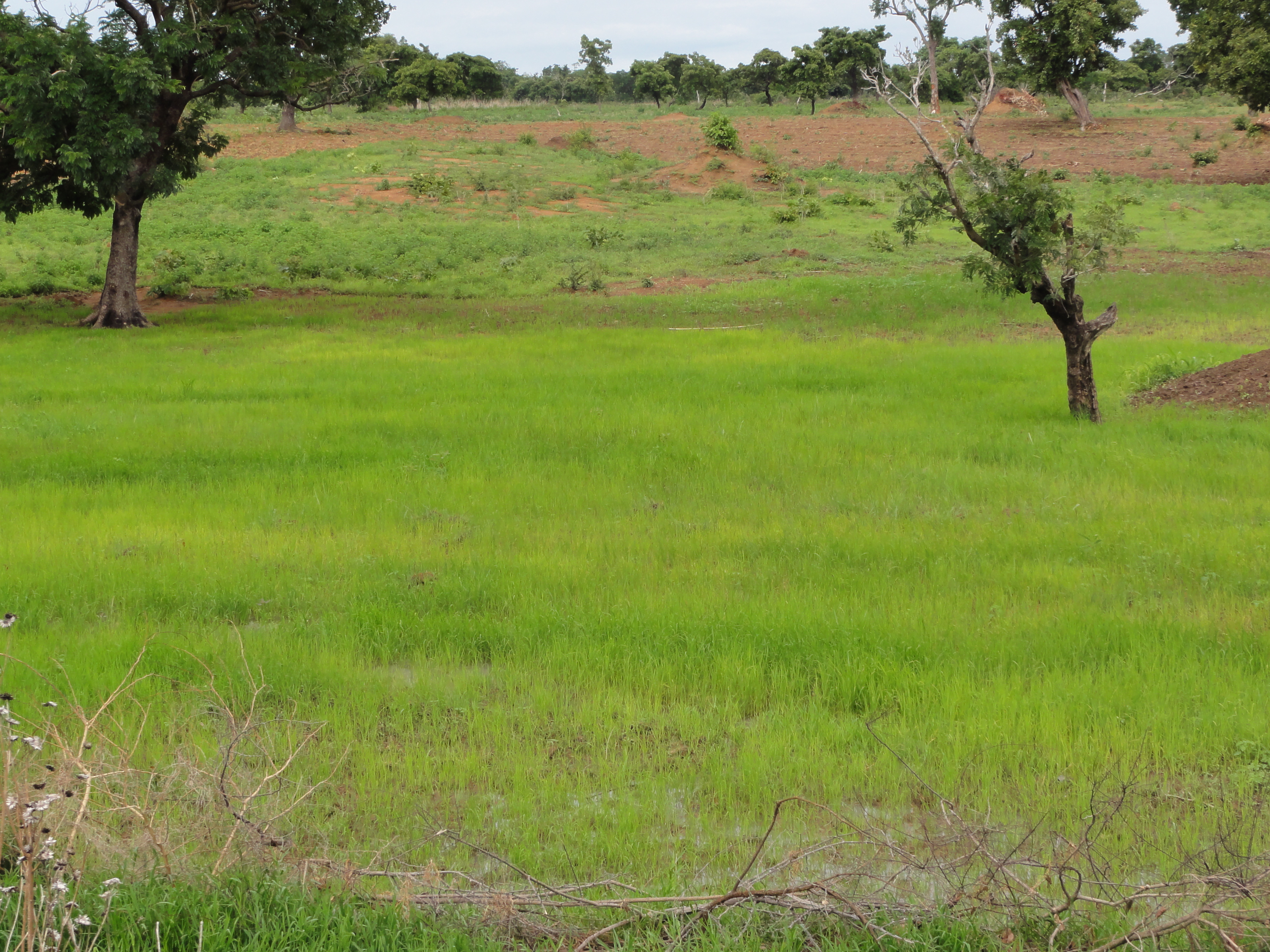 Rice cultivation in Benin